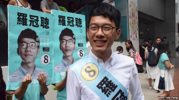 Nathan Law Kwun Chung during 2016 election